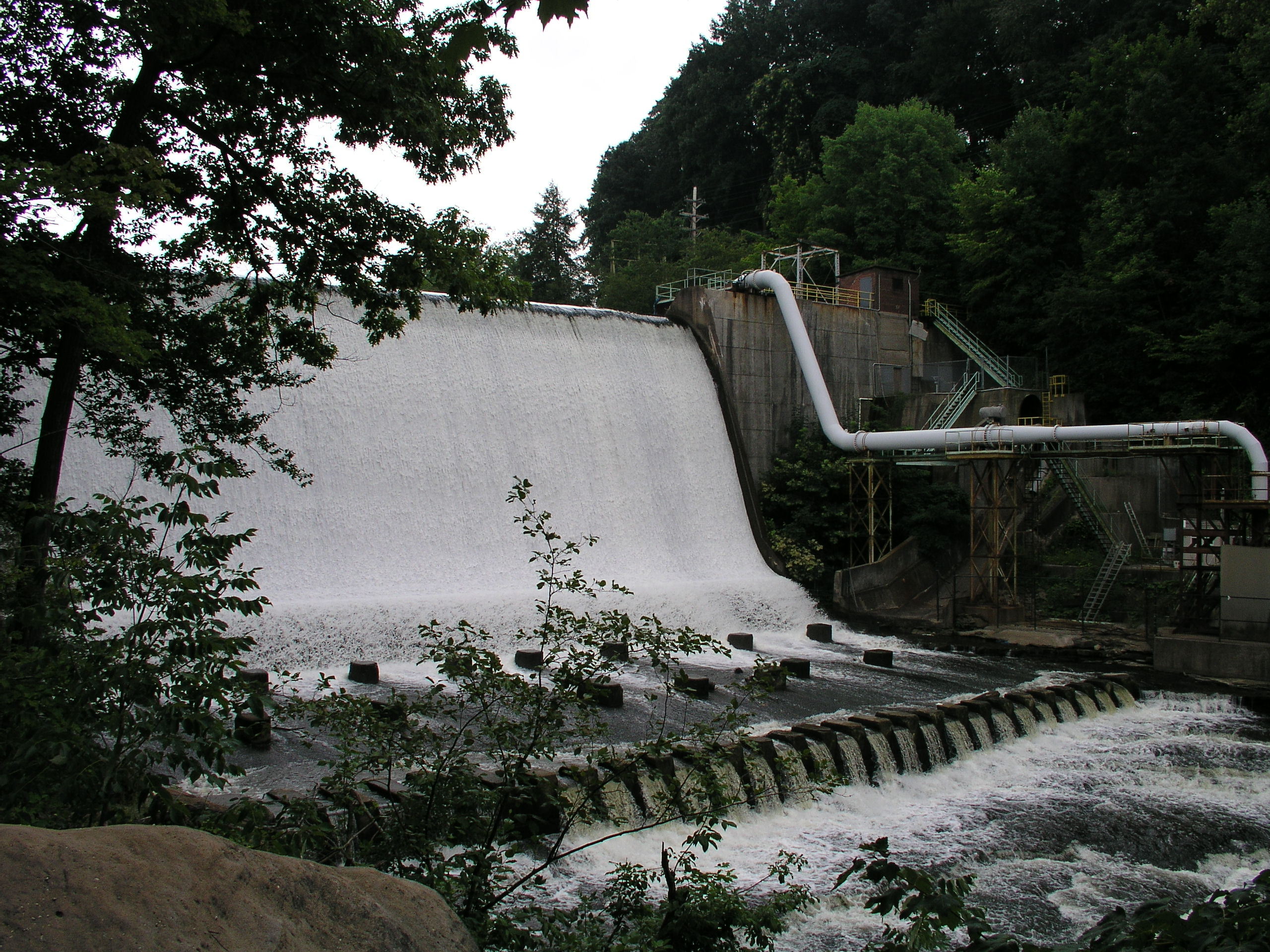 Ohio Edison Dam, Cuyahoga River, Cuyahoga Falls, Ohio, August 2005